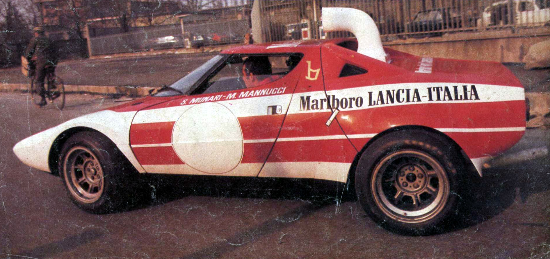 Turin (Italy), "Vincenzo Lancia" Museum, February 21, 1973. French rally driver Jean-Claude Andruet and his co-driver Michèle Petit “Biche”, new recruitments of Lancia–Marlboro racing team for the 1973 season, test for the first time the Lancia Stratos prototype — equipped with a special snorkel-air scoop on the engine bay's roof — of their teammates Sandro Munari and Mario Mannucci.